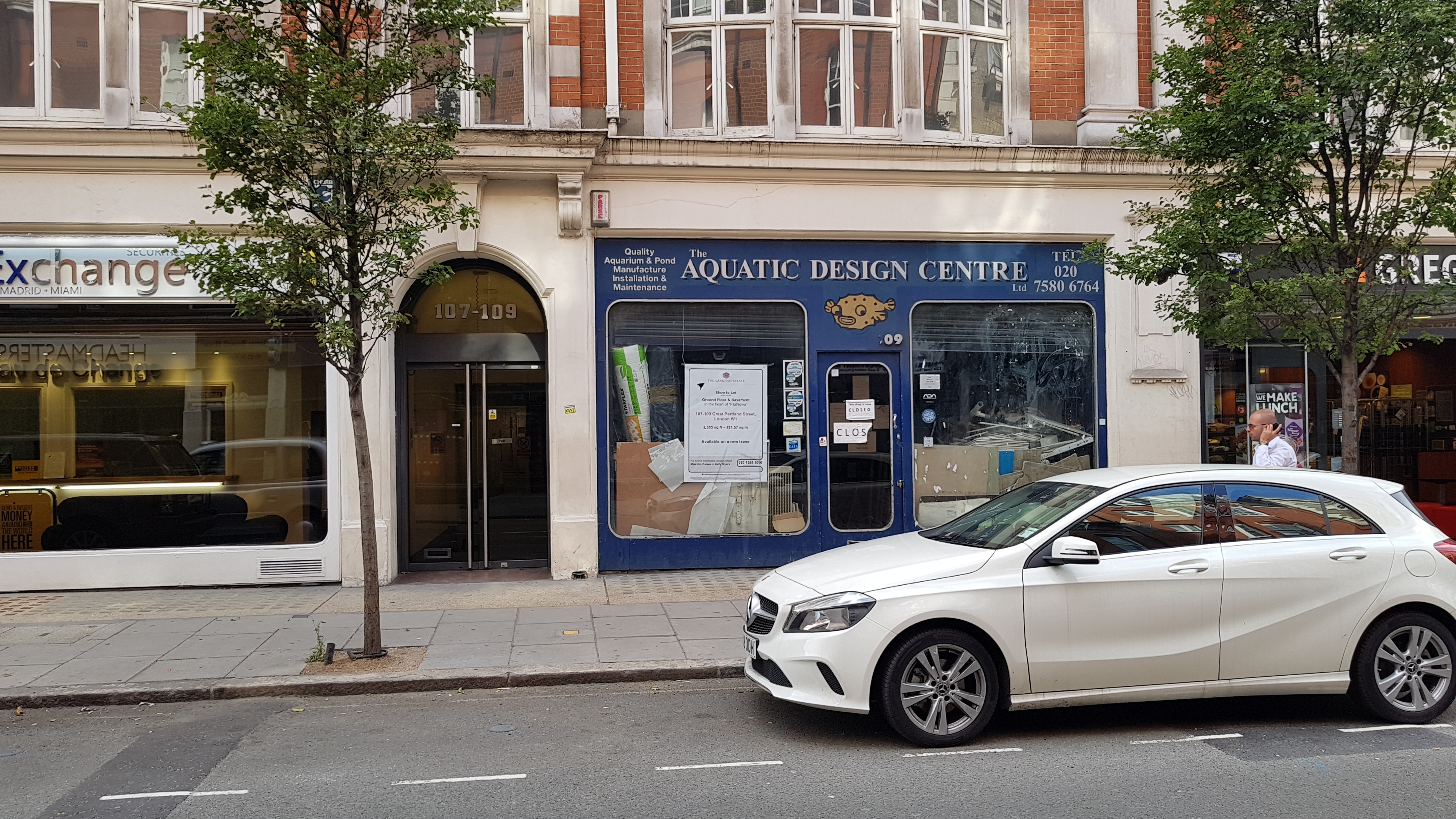 Road accident into Post Office on Great Portland Street